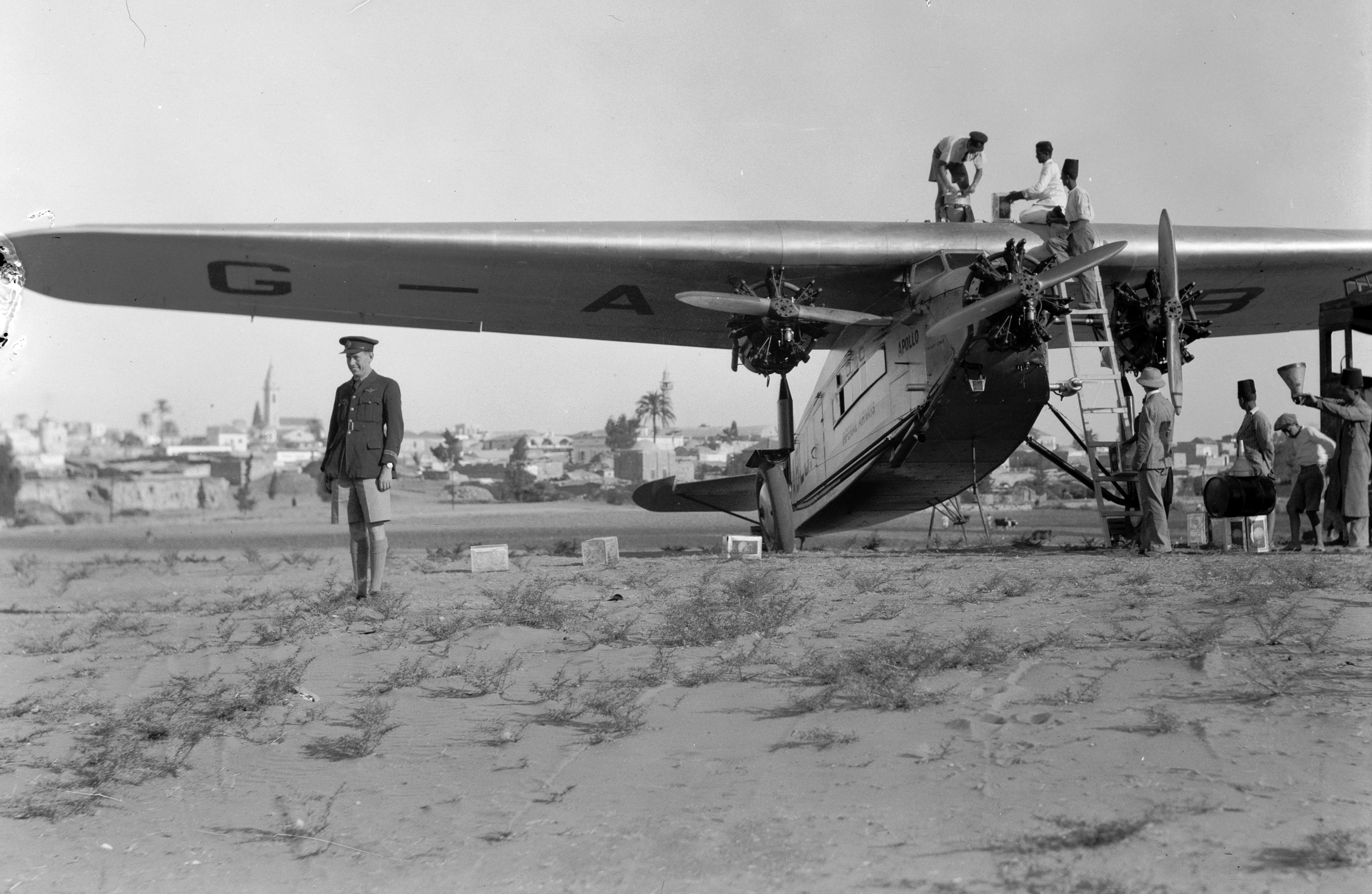 Air views of Palestine. Air route over Cana of Galilee, Nazareth, Plain of Sharon, etc. Aircraft "Apollo." Refuelling at Ramleh.